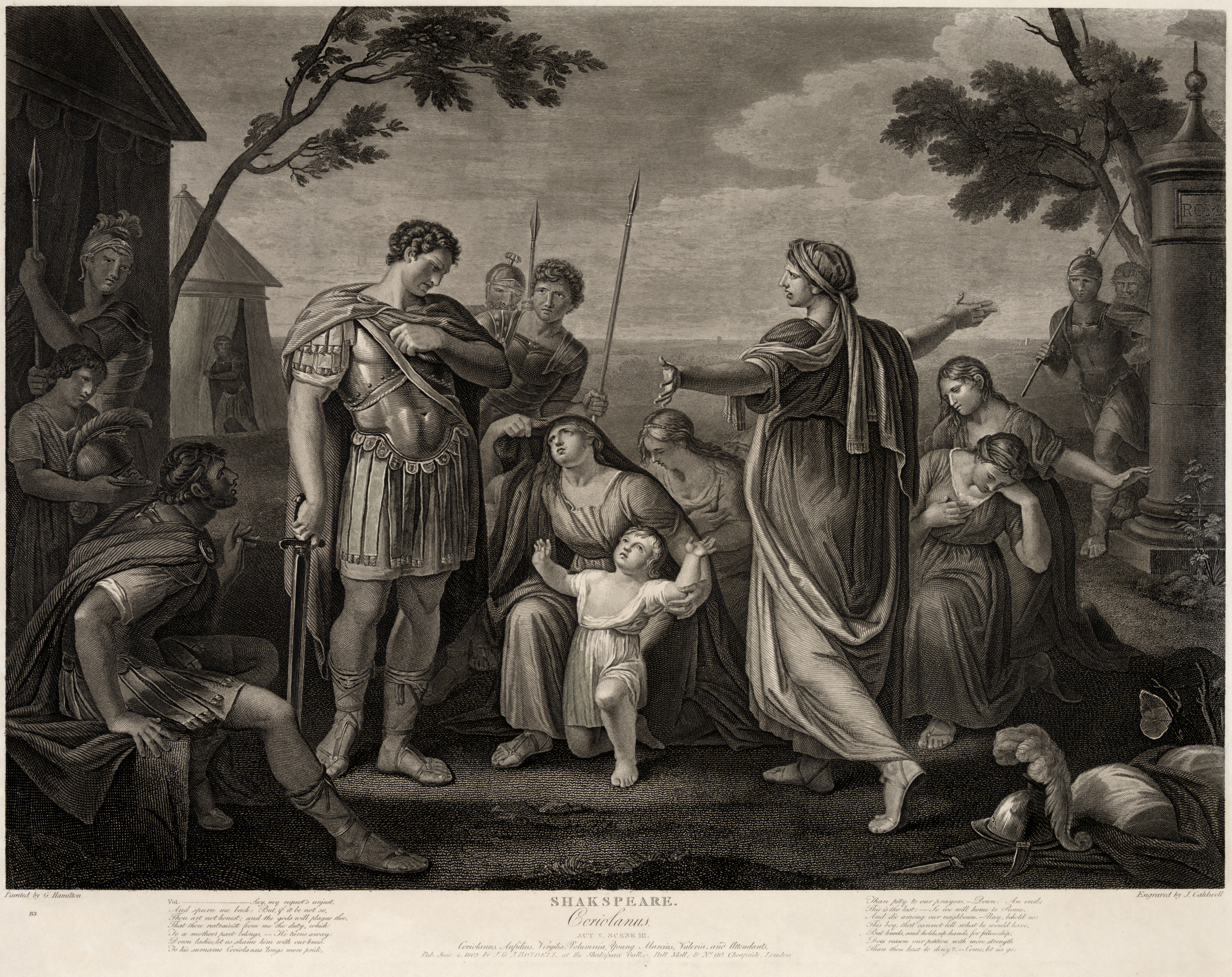 Act V Scene 3 of Shakespeare's Coriolanus: VOLUMNIA Say my request's unjust, And spurn me back: but if it be not so, Thou art not honest; and the gods will plague thee, That thou restrain'st from me the duty which To a mother's part belongs.—He turns away: Down, ladies: let us shame him with our knees. To his surname Coriolanus 'longs more pride Than pity to our prayers. Down: an end; This is the last.—So we will home to Rome, And die among our neighbours.—Nay, behold's: This boy, that cannot tell what he would have But kneels and holds up hands for fellowship, Does reason our petition with more strength Than thou hast to deny't.—Come, let us go